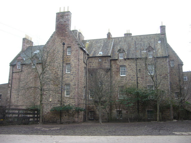 Bruntsfield House, Whitehouse Loan This shows the rear view of the House facing Warrender Park Road. A description of the Hertford Raid of 1544 mentions the burning down of 'Bruntisfield House', presumably a predecessor, on the Burgh Muir.